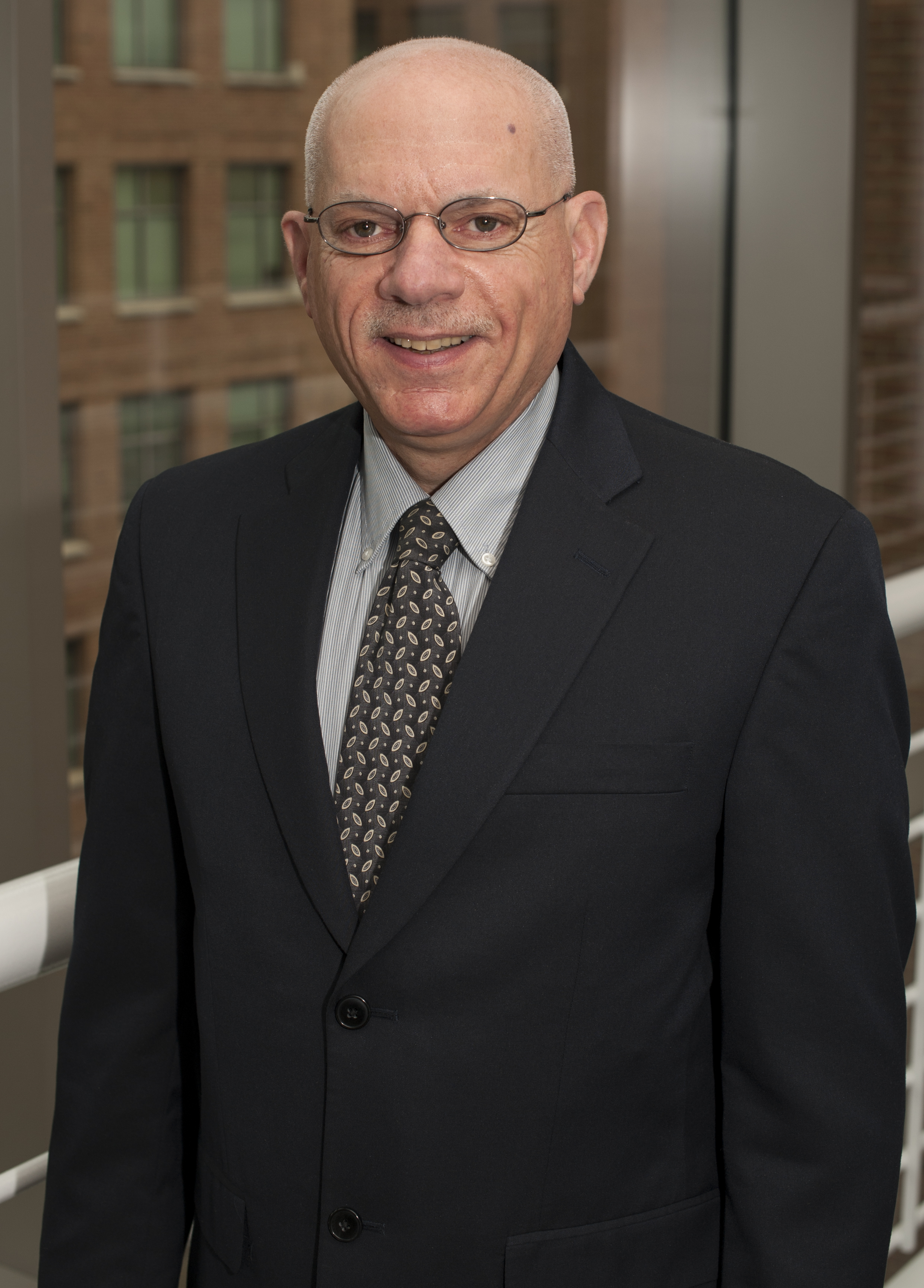 Stephen Ostroff, M.D., is FDA’s Acting Chief Scientist. He is also a contributor to FDA Voice. This photo is free of all copyright restrictions and available for use and redistribution without permission. Credit to the U.S. Food and Drug Administration is appreciated but not required. For more privacy and use information visit: FDA photo by Michael J. Ermarth